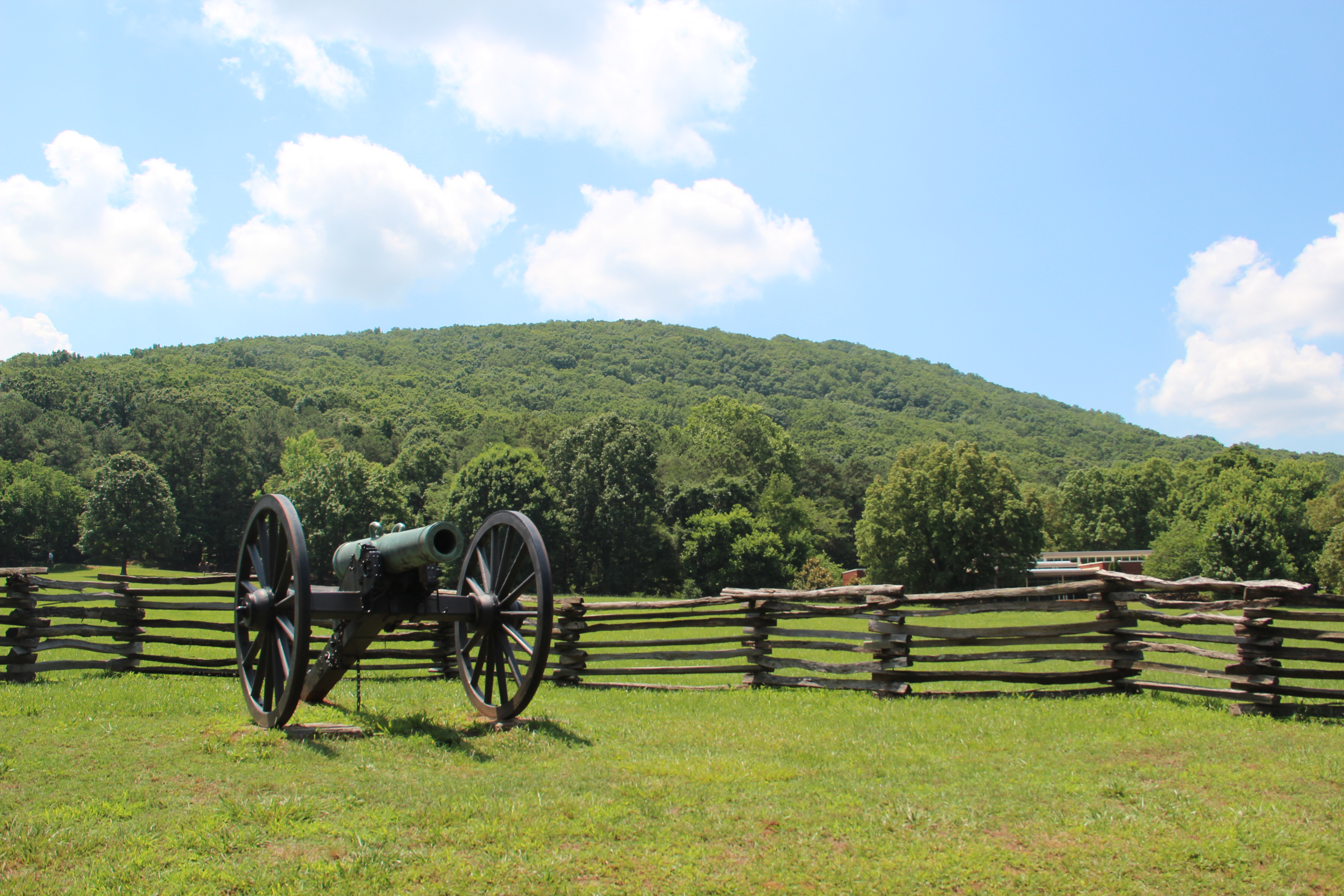 Kennesaw Mountain viewed from Old 41 Highway